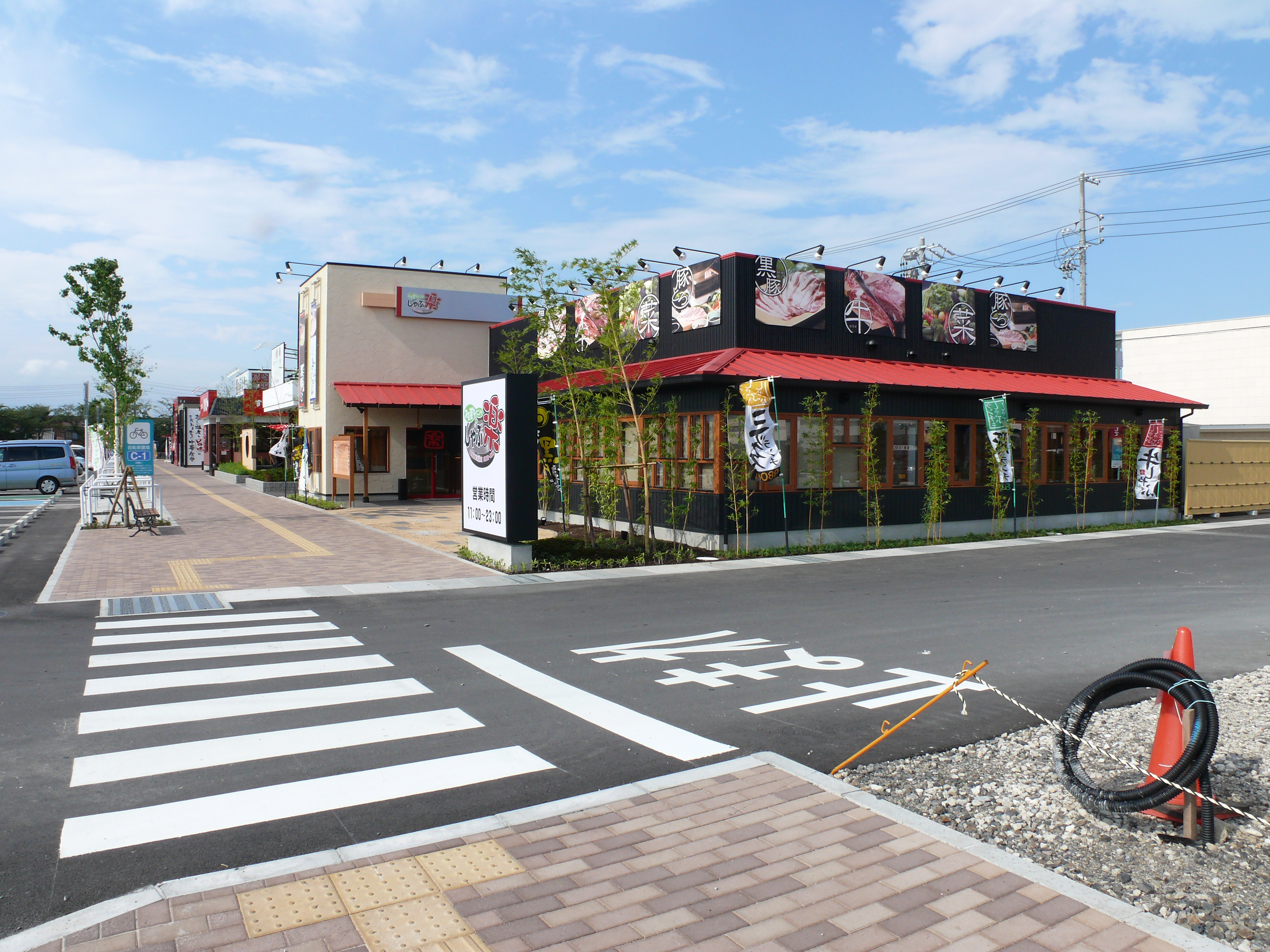 LOC TOWN Suzuka Shopping Center.